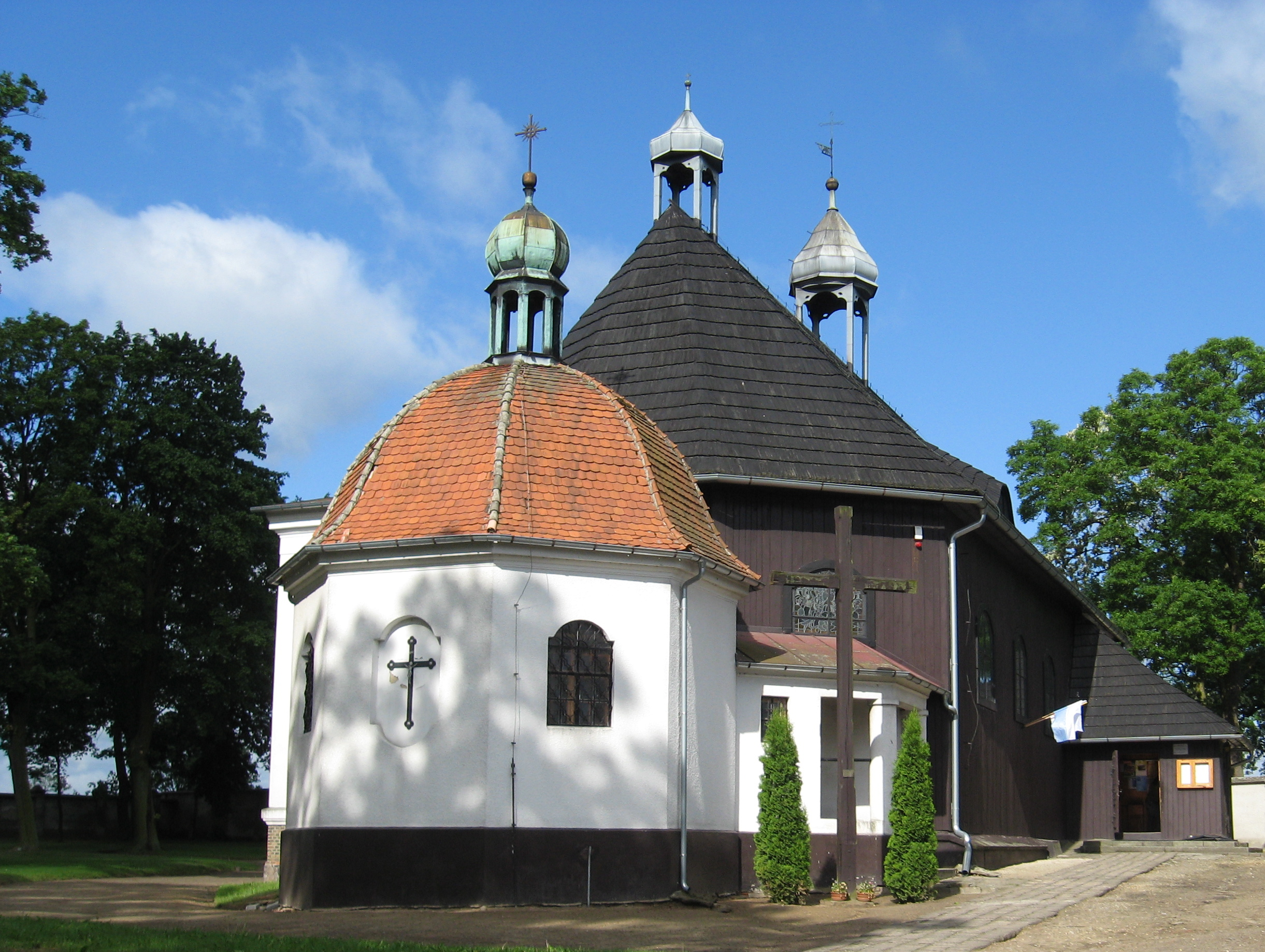 Łódź, Poznań County Object location 52° 15′ 13.00″ N, 16° 44′ 30.00″ E - OpenStreetMap - Proximityrama (Info)